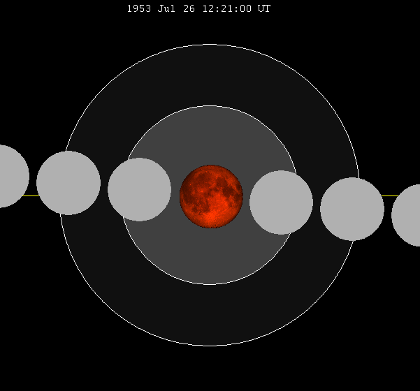 July 1953 lunar eclipse chart of moon's path through the earth's shadow. thumb